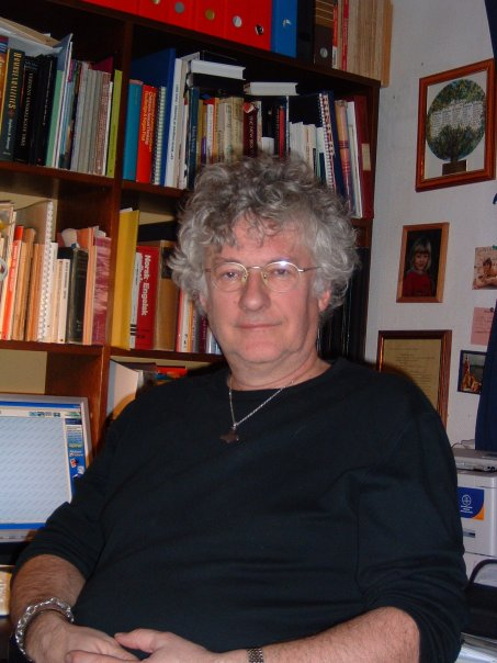 Not allowed to use this image anywhere unless you ask "Thore Langfeldt"